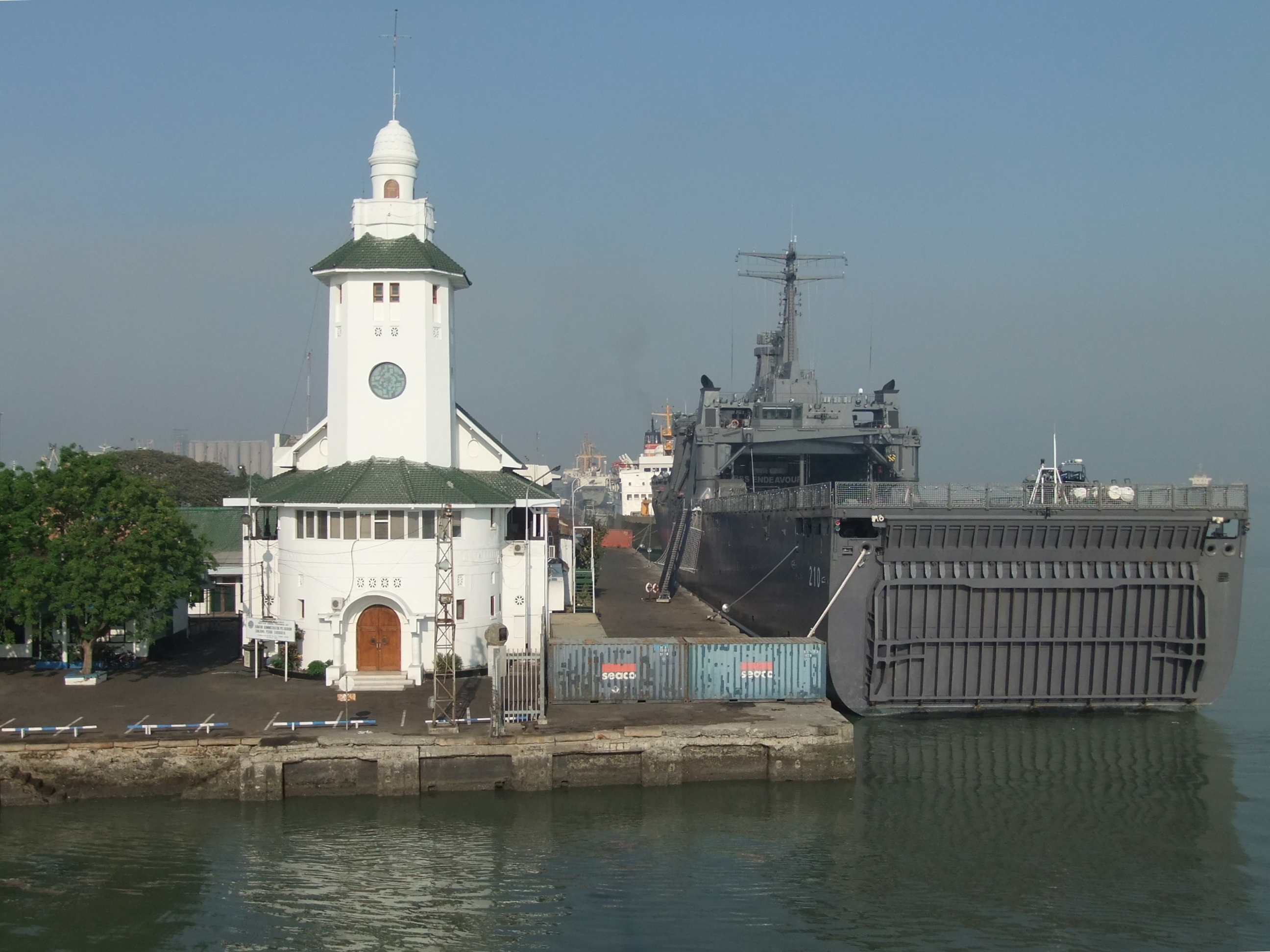 Ujung Port, Surabaya and RSS Endeavour